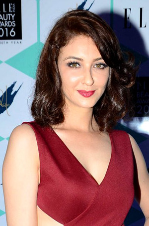 Saumya Tandon at Elle Beauty Awards 2016